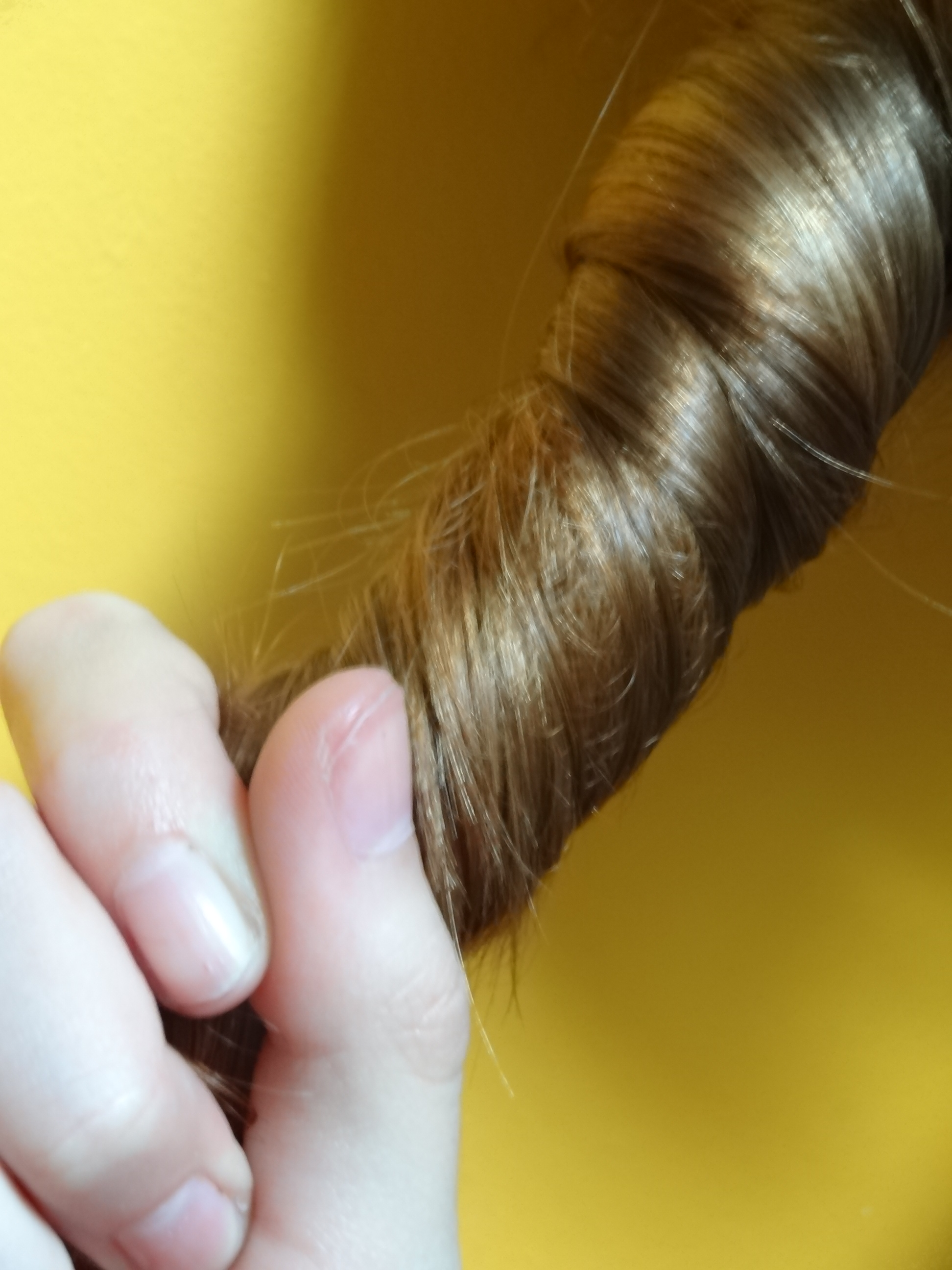 a strand of twisted hair